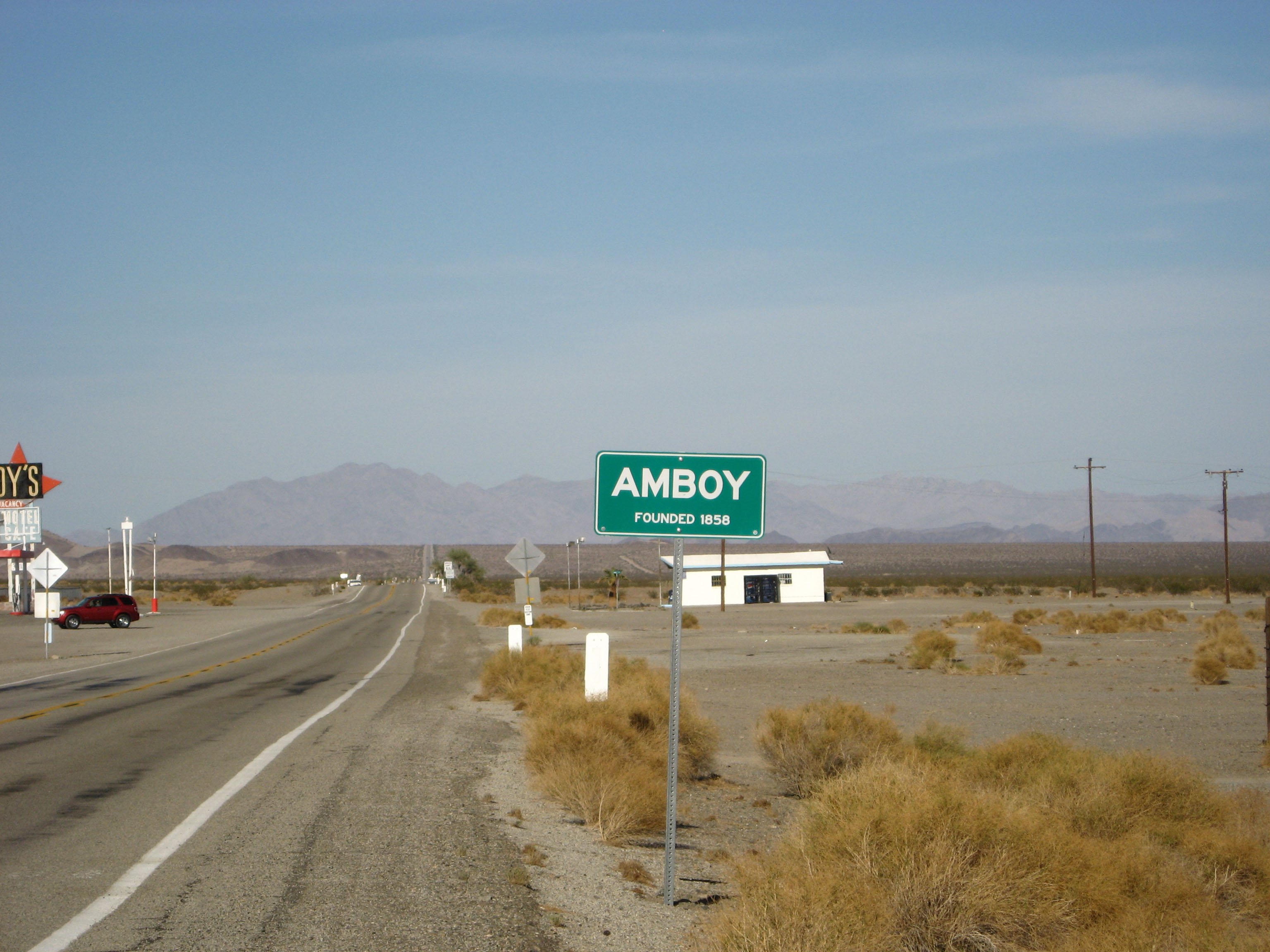 Amoby City Limits, west side of the town along U.S. Route 66.